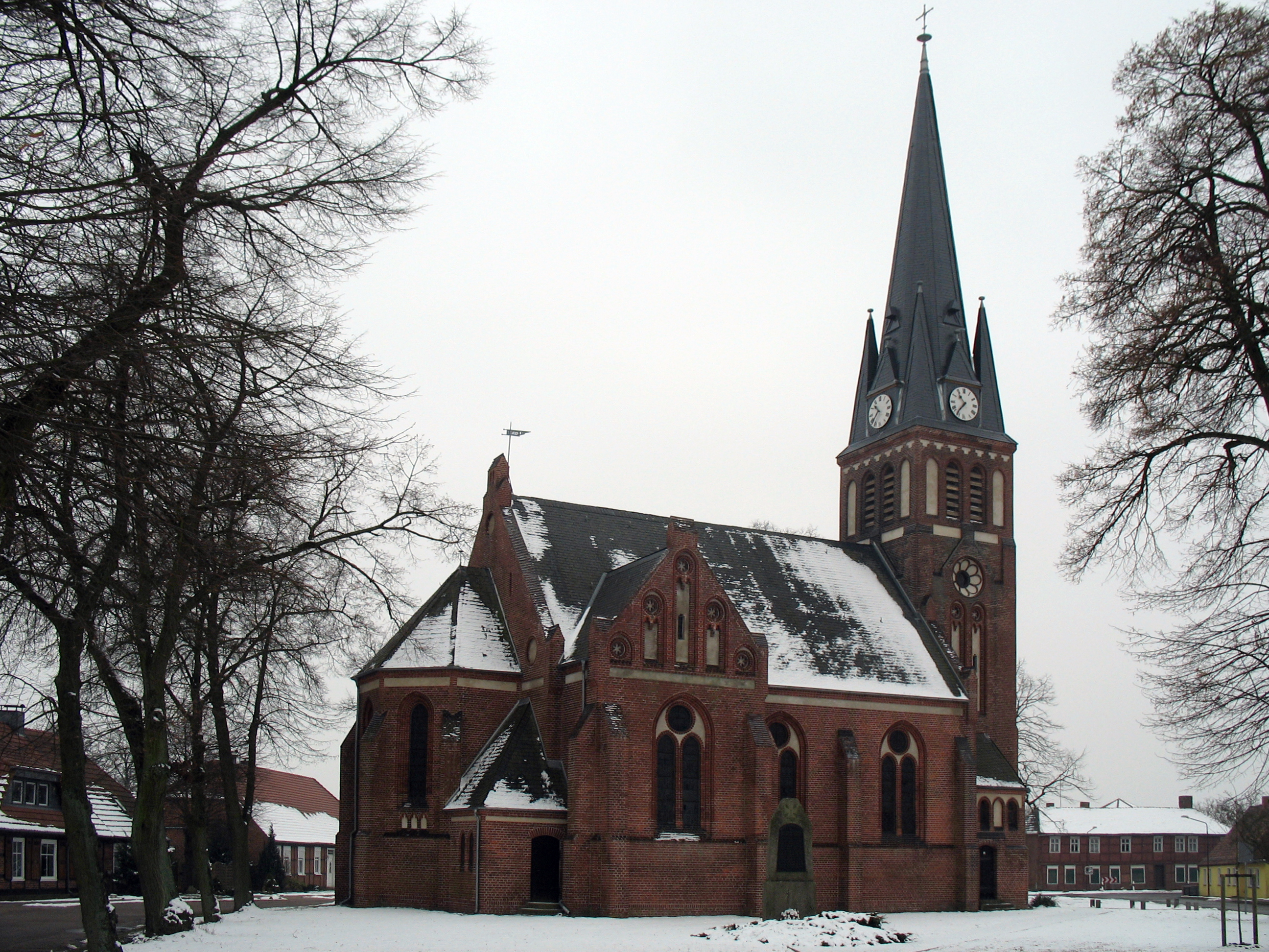 1903-04 established church of the village Gross Lueben located in Prignitz County of the Federal State Brandenburg in Germany. A brick-building in the neo-Gothic style of this era. The church lost its 20m high steeple in 1984. Reconstruction at 2012